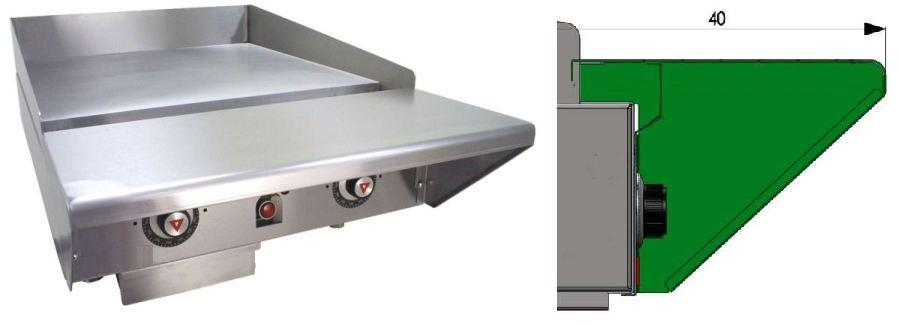 Photograph and 3D CAD rendering of industry standard accessories for commercial griddles